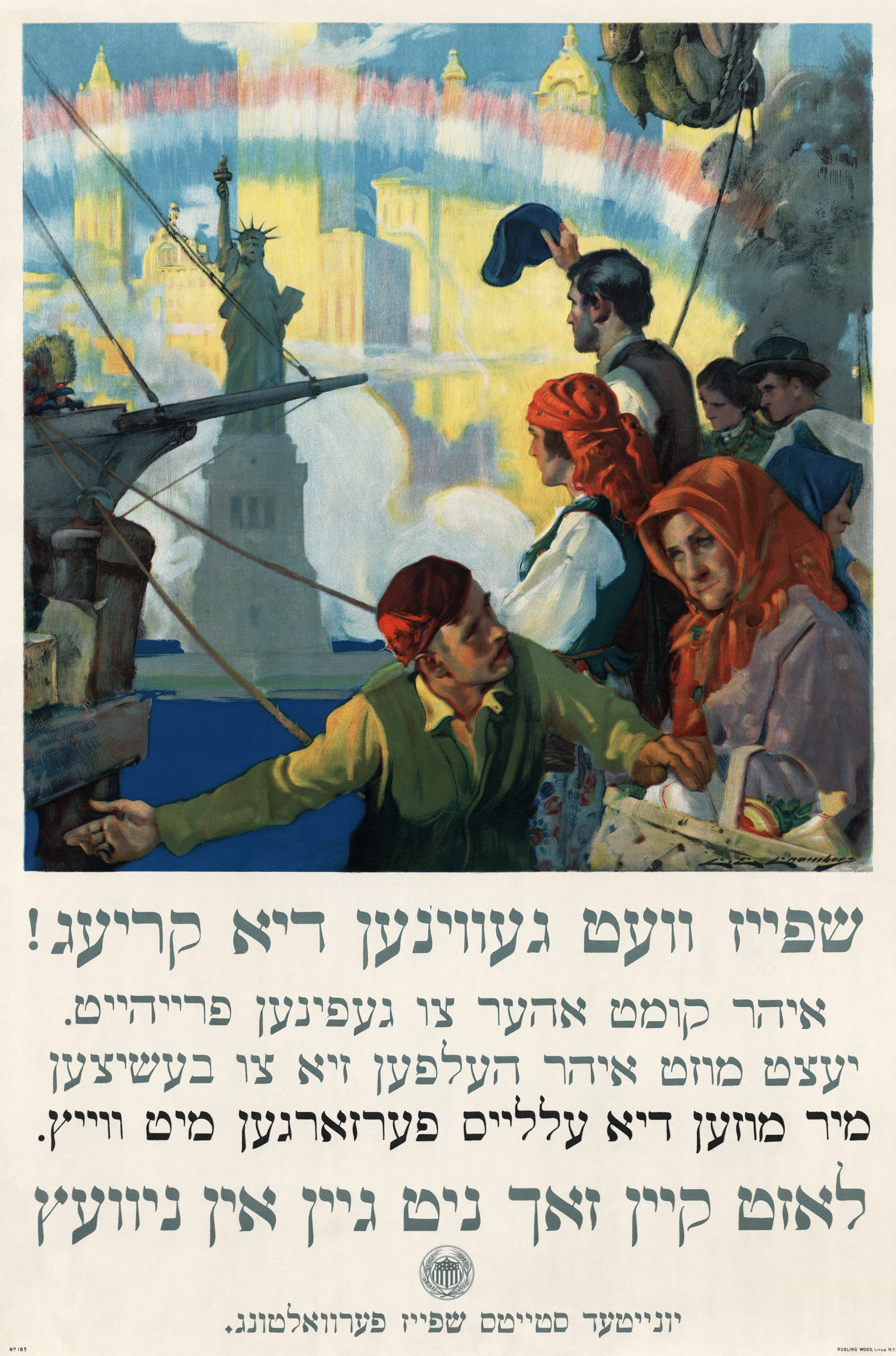 World War I era poster in Yiddish to encourage food conservation. Caption (translated) "Food will win the war - You came here seeking freedom, now you must help to preserve it - Wheat is needed for the allies - waste nothing." Color lithograph.